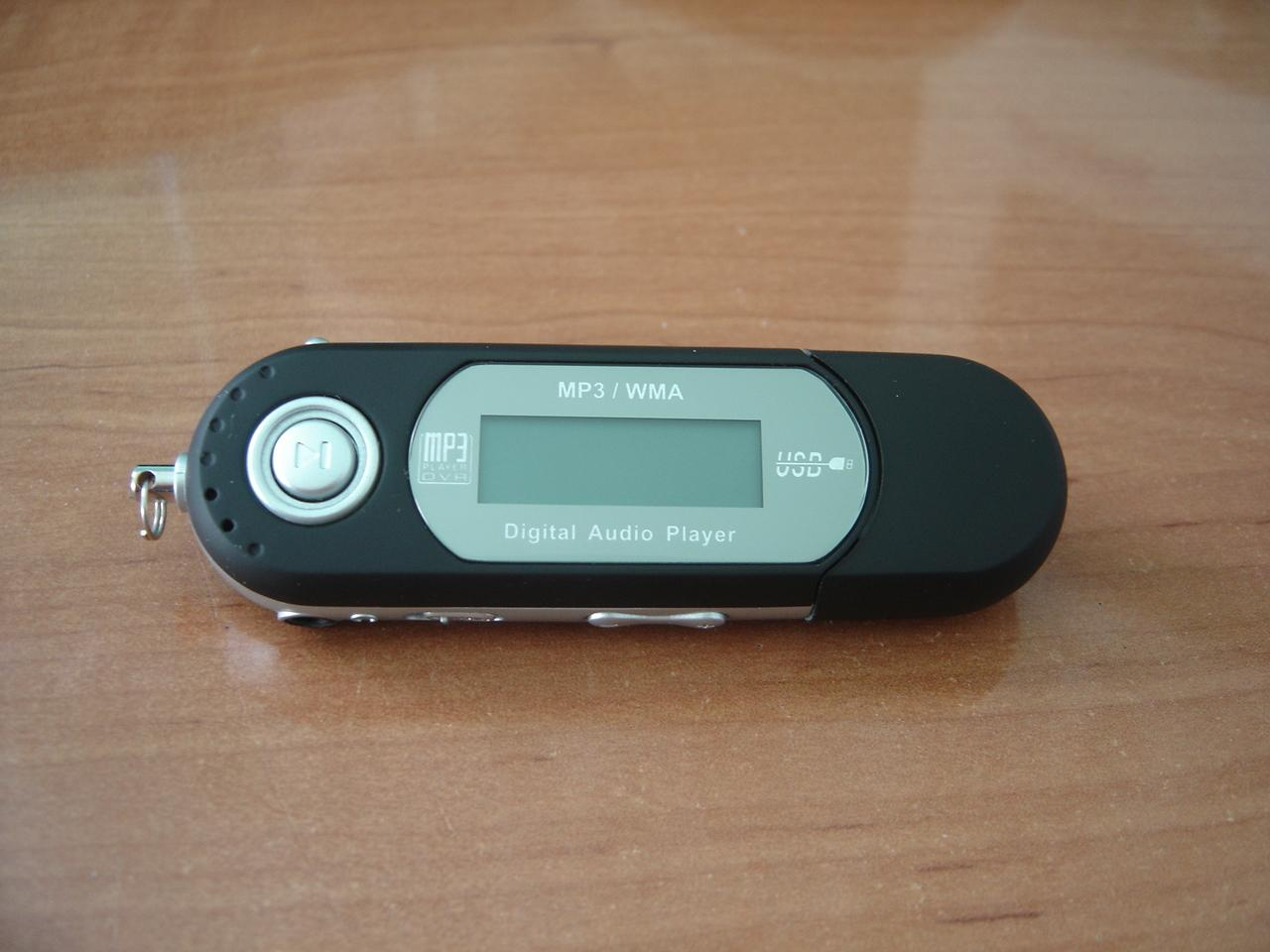 rubbish mp3